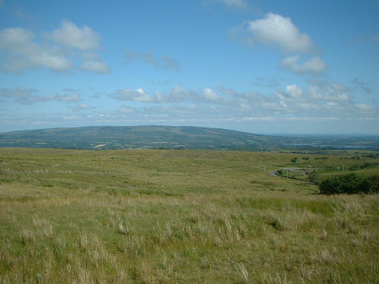 View from Cuilcagh Mountain, Co.Fermanagh, Northern Ireland. Personal picture taken by Andrew Humphreys in August 2005.